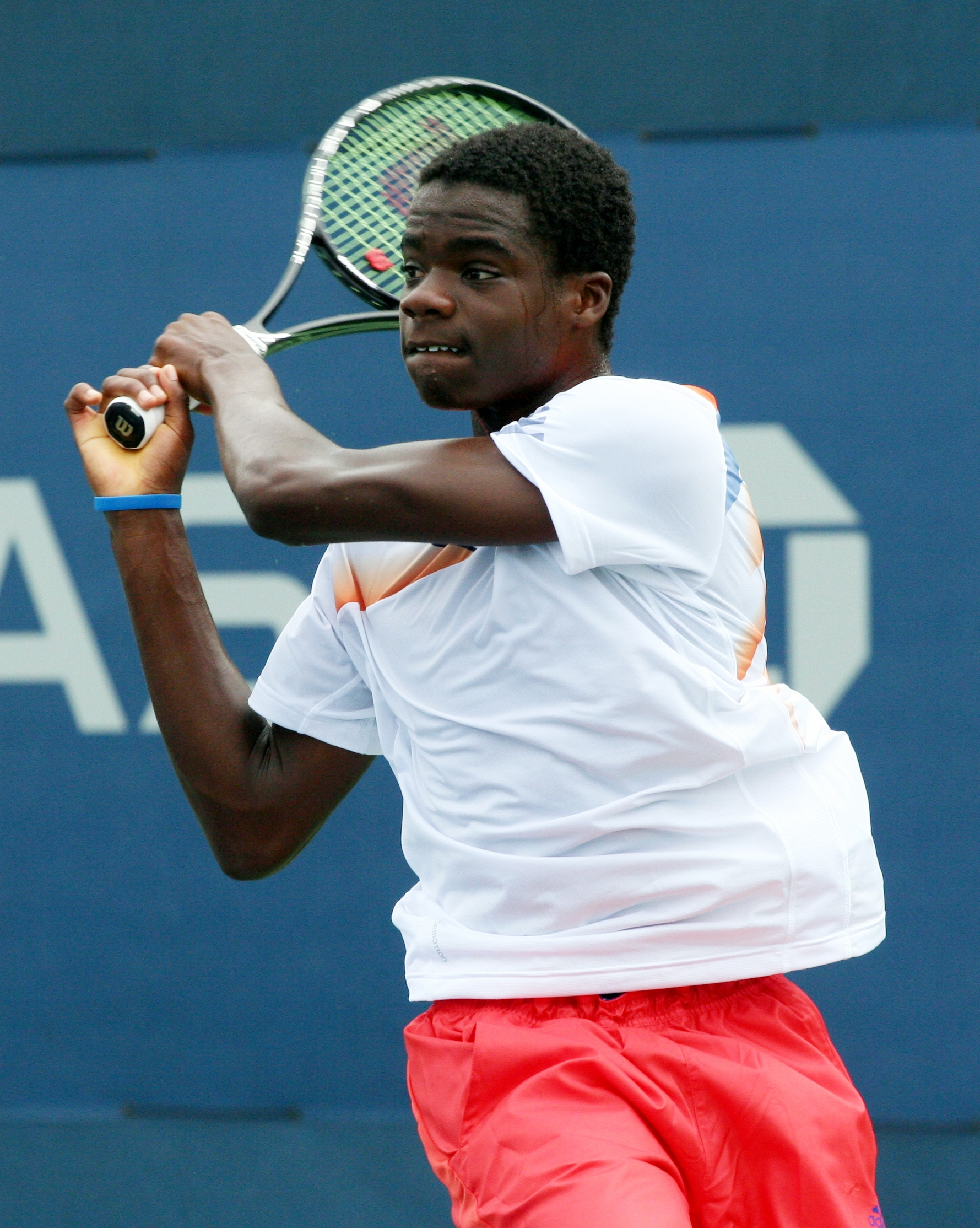 U.S. Open Juniors Tuesday, Sept. 3, 2013